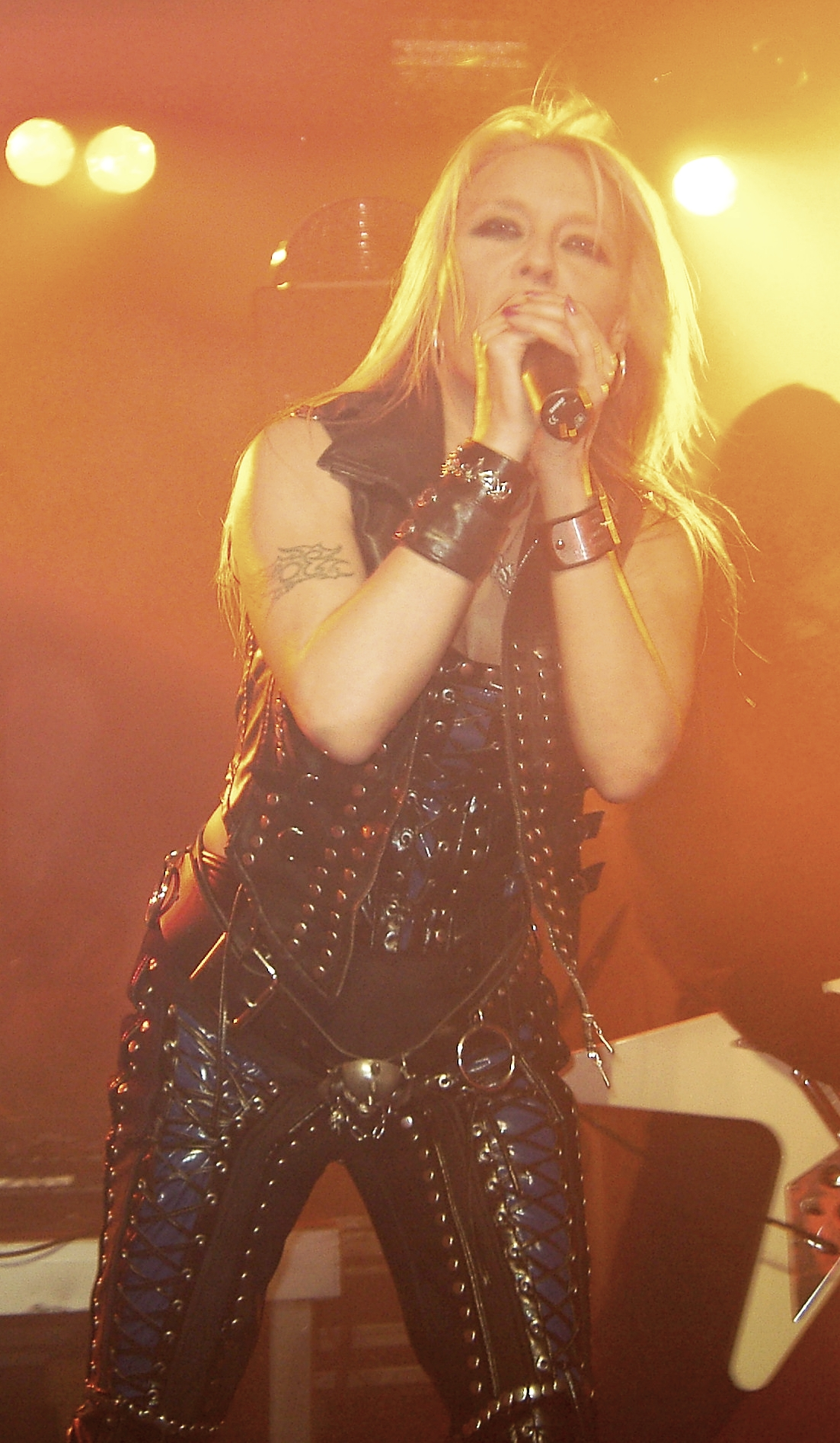 Doro Pesch live at Helmond, 28th April 2006